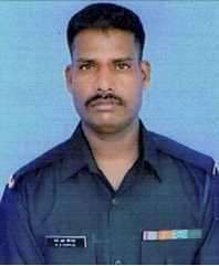 the duty picture of late lance naik hanumanthappa